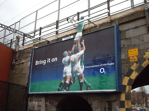 O2 Rugby Advert (from flickr)